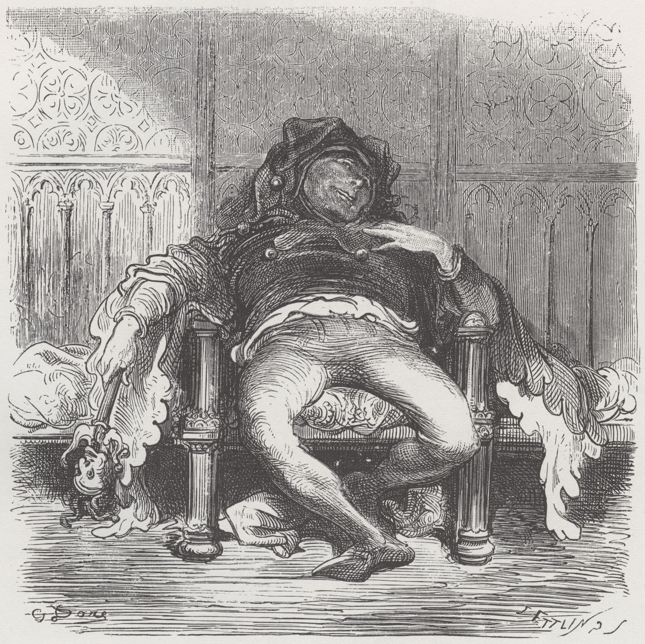 Triboulet (by Gustave Doré)